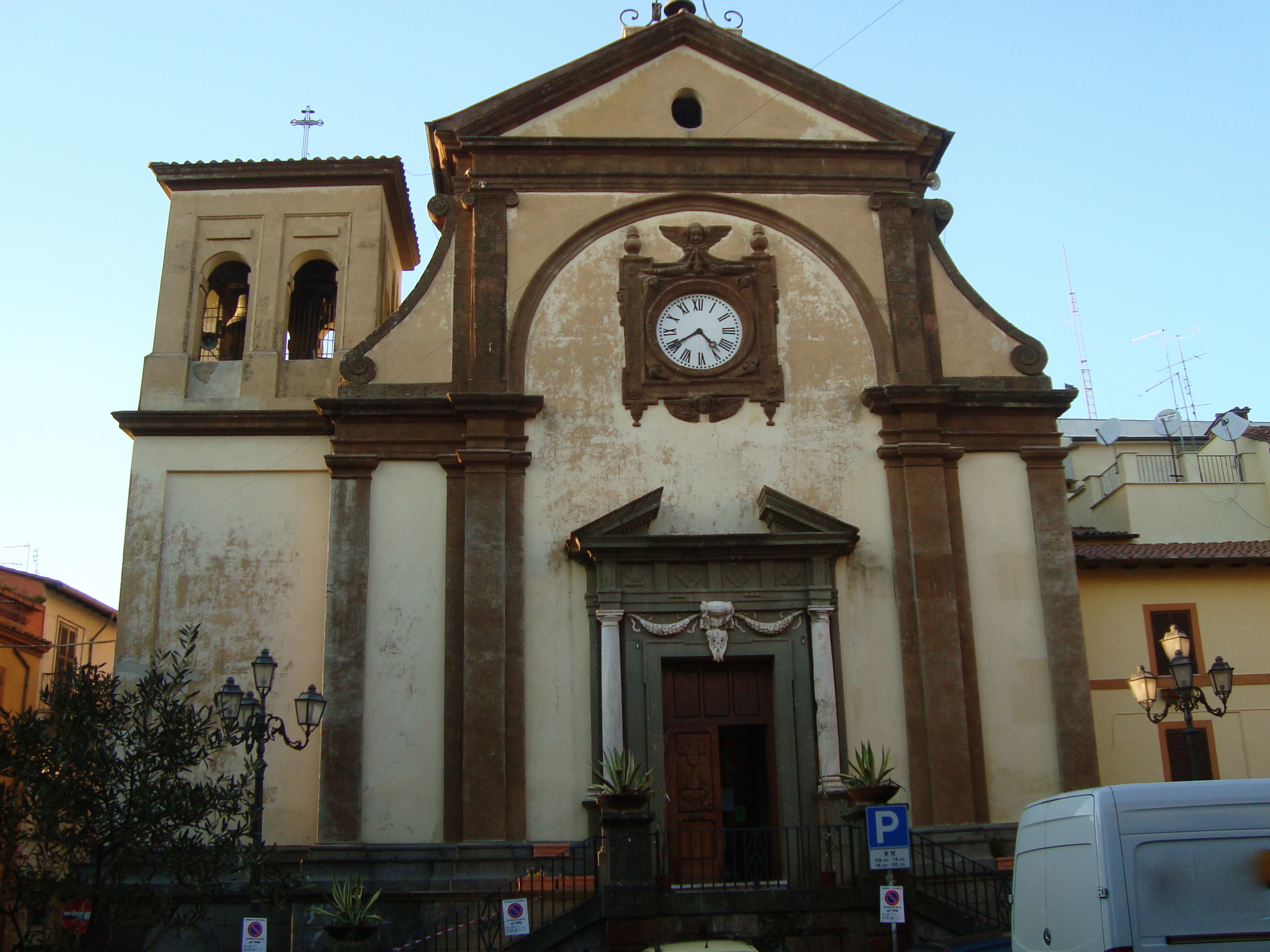 The Church San Lorenzo at Piazza Guglielmo Marconi in Zagarolo